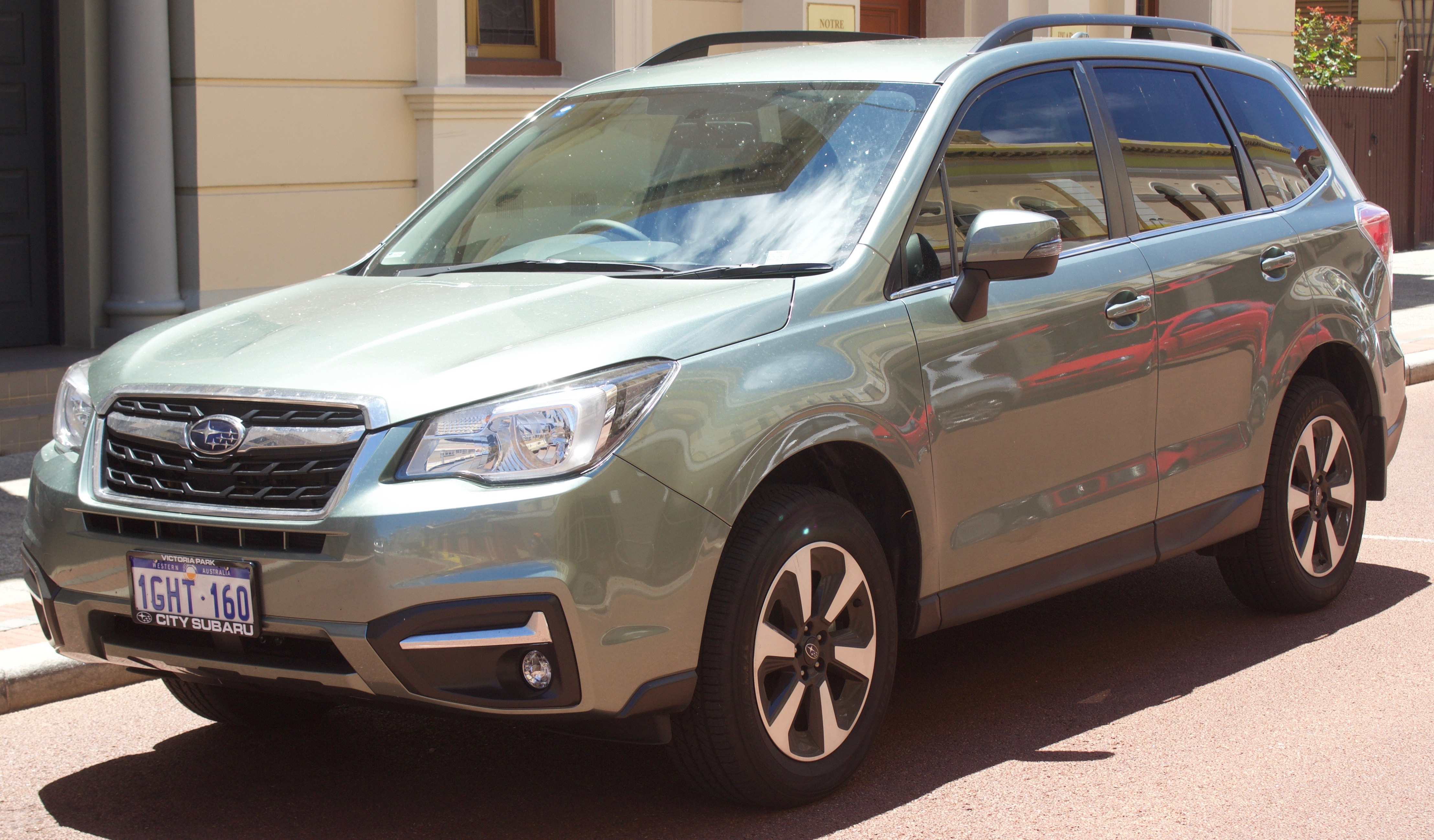 2017 Subaru Forester (MY17) wagon. Photographed in Fremantle, Western Australia, Australia. Please note, that I cannot determine the actual trim due to no external differentiation, also additionally most trims are able to show external differing.